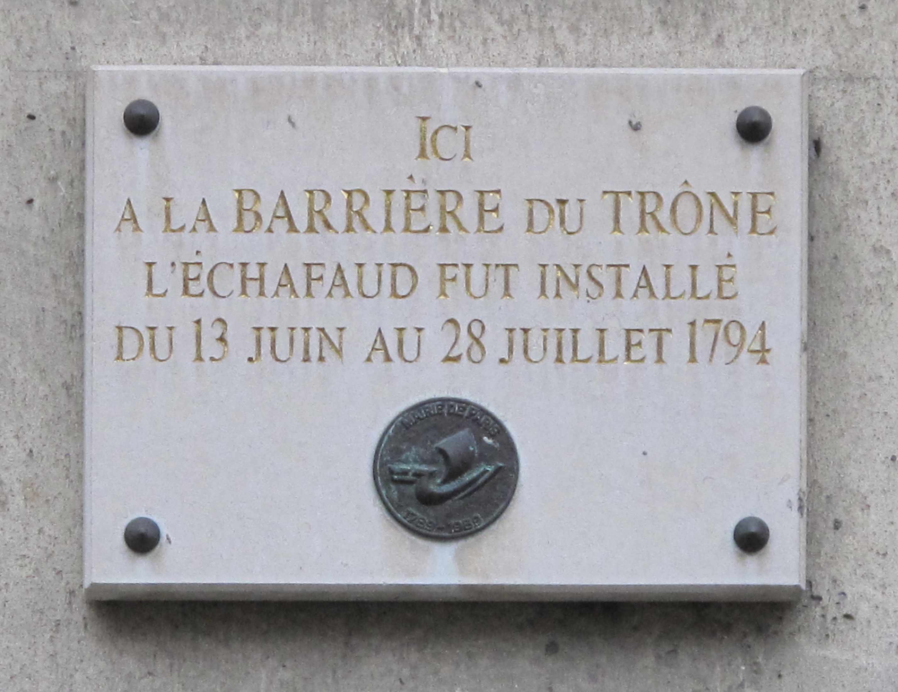 Plaque in place where the guillotine was installed on the place de la Nation, Paris 12th arr. 1,306 people were killed here in 1794